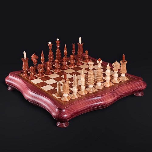 Barleycorn chess set